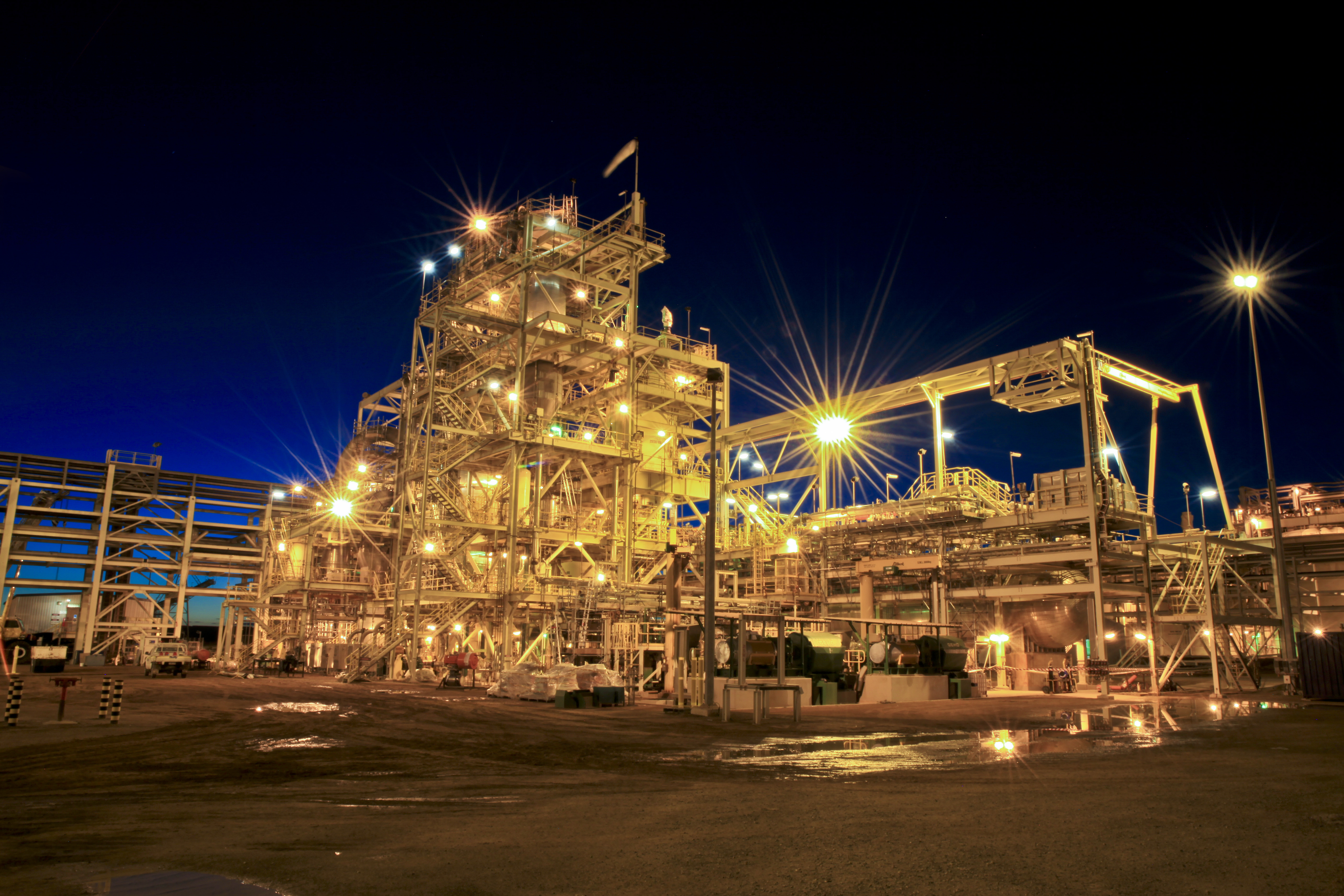 Picture of RNO processing plant at night